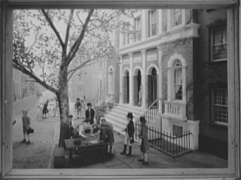 Museum of the City of New York, 104th St. and 5th Ave., New York City. Stock Exchange, Buttonwood diorama.